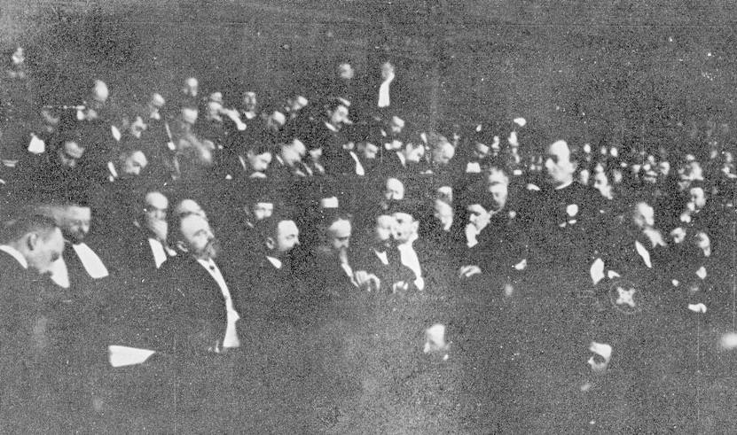 photo depicting Emile Zola's Trial in 1898